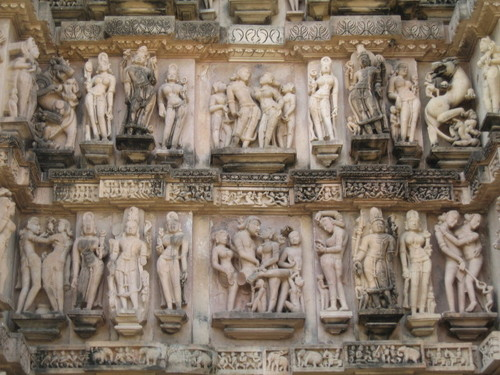 Own camera. Photo taken on 27.03.2008